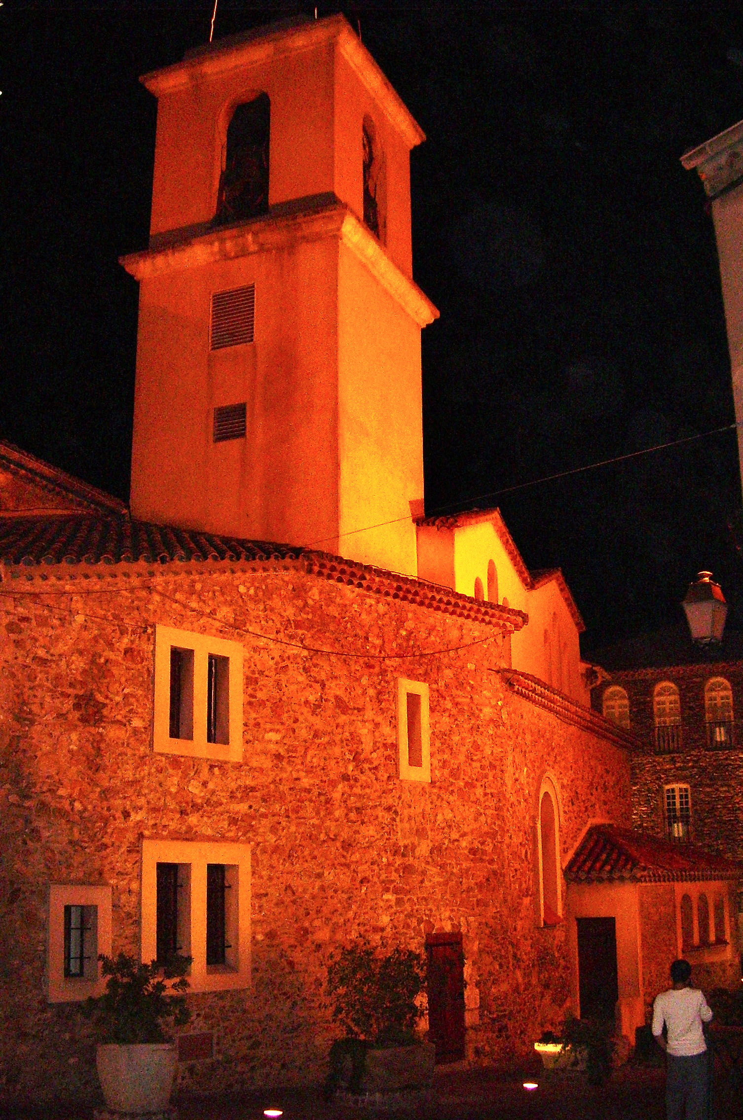 Church of Sainte-Maxime, france